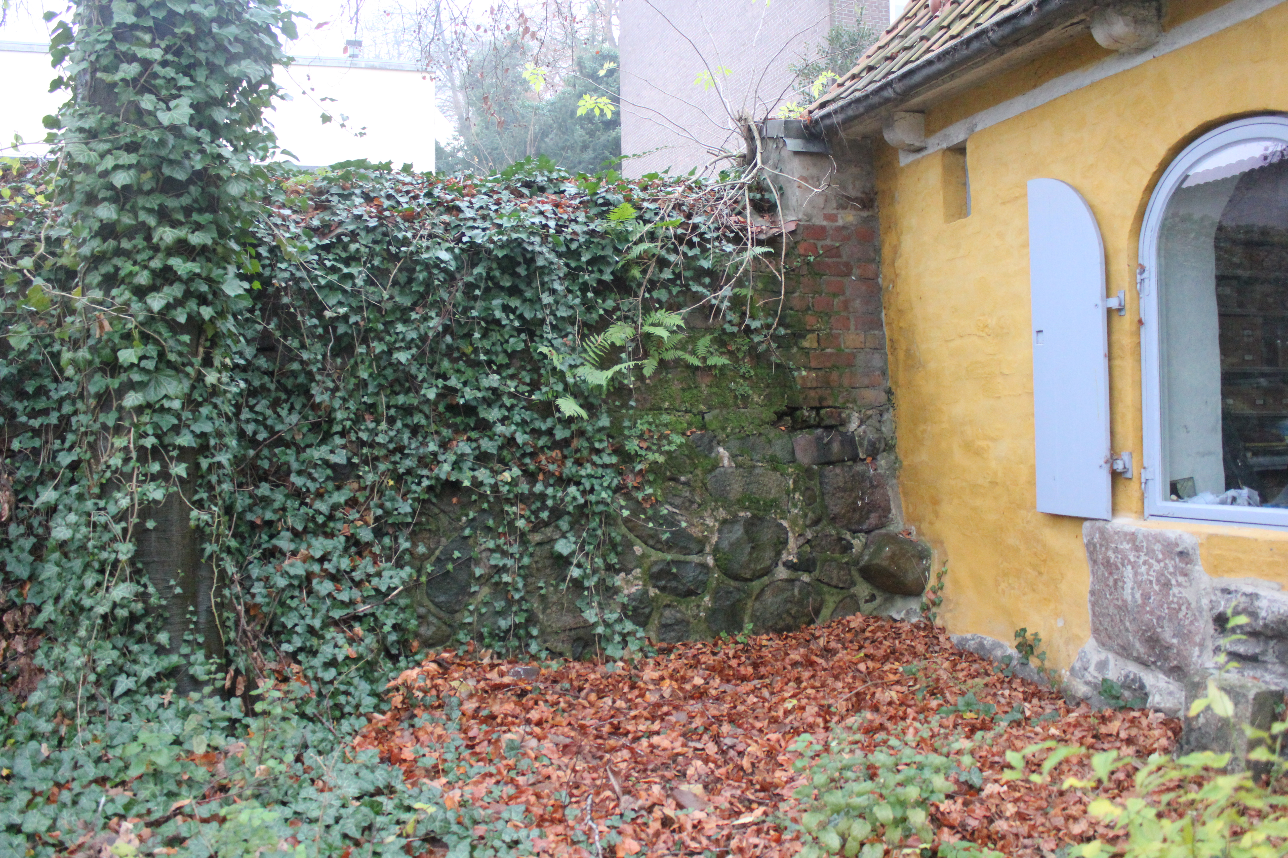 Town wall / City wall of Flensburg